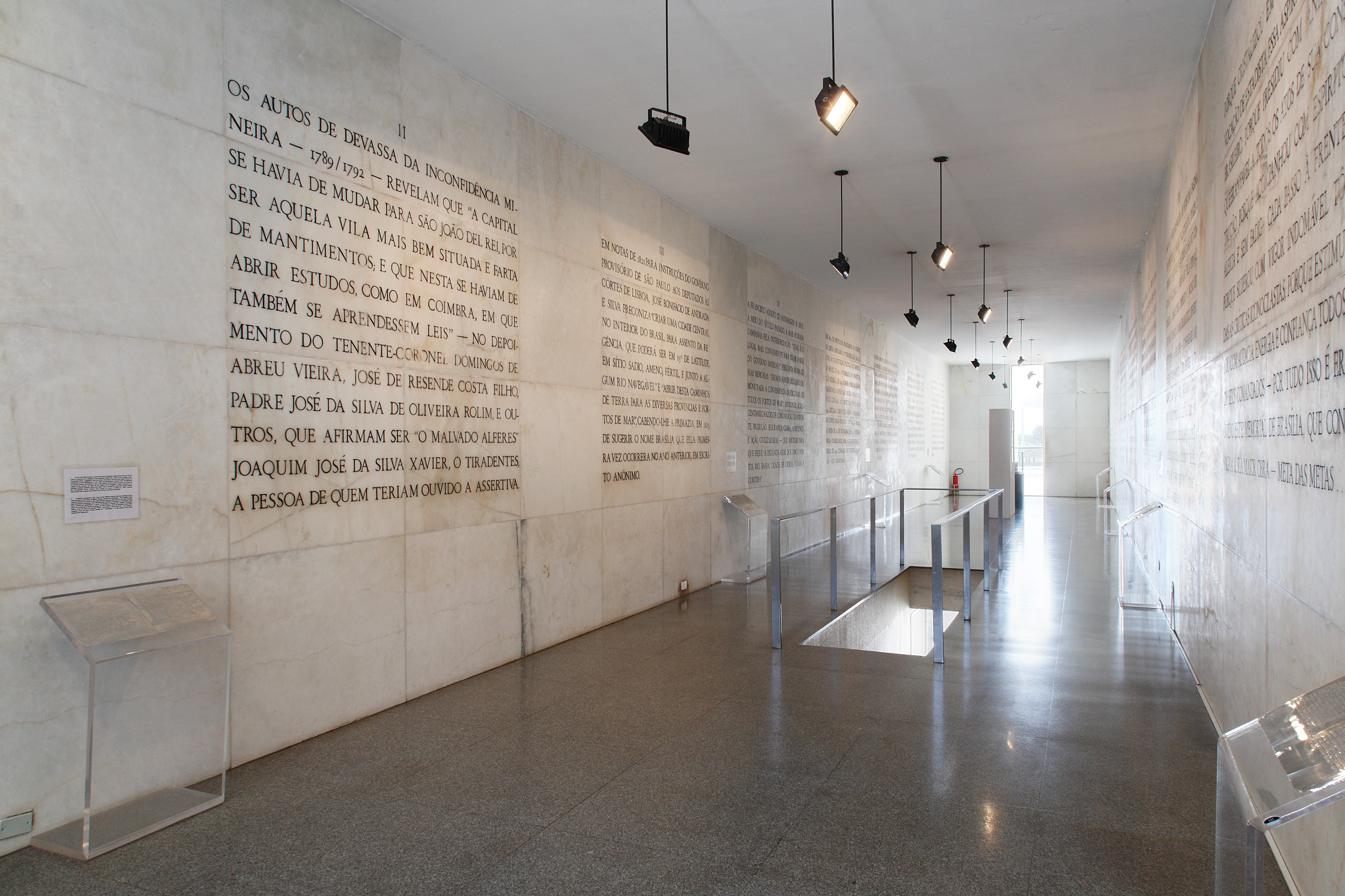 Inner area of City's Museum (historical museum of Brasília) on the Praça dos Três Poderes in Brasília, Brazil.